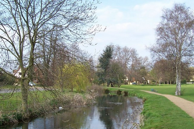 Potton Park